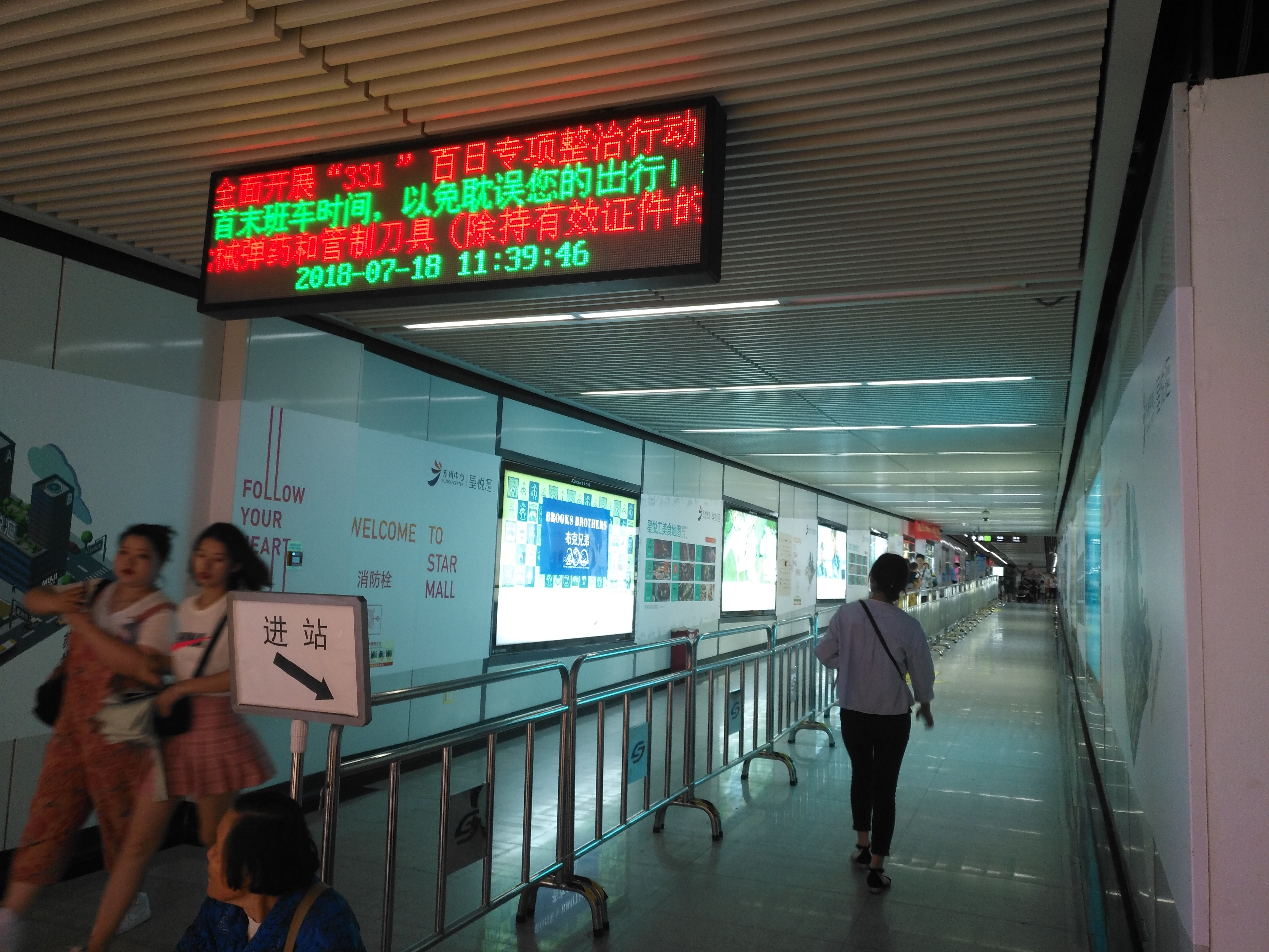 A Exit of Dongfangzhimen Station, which connects Suzhou Center.